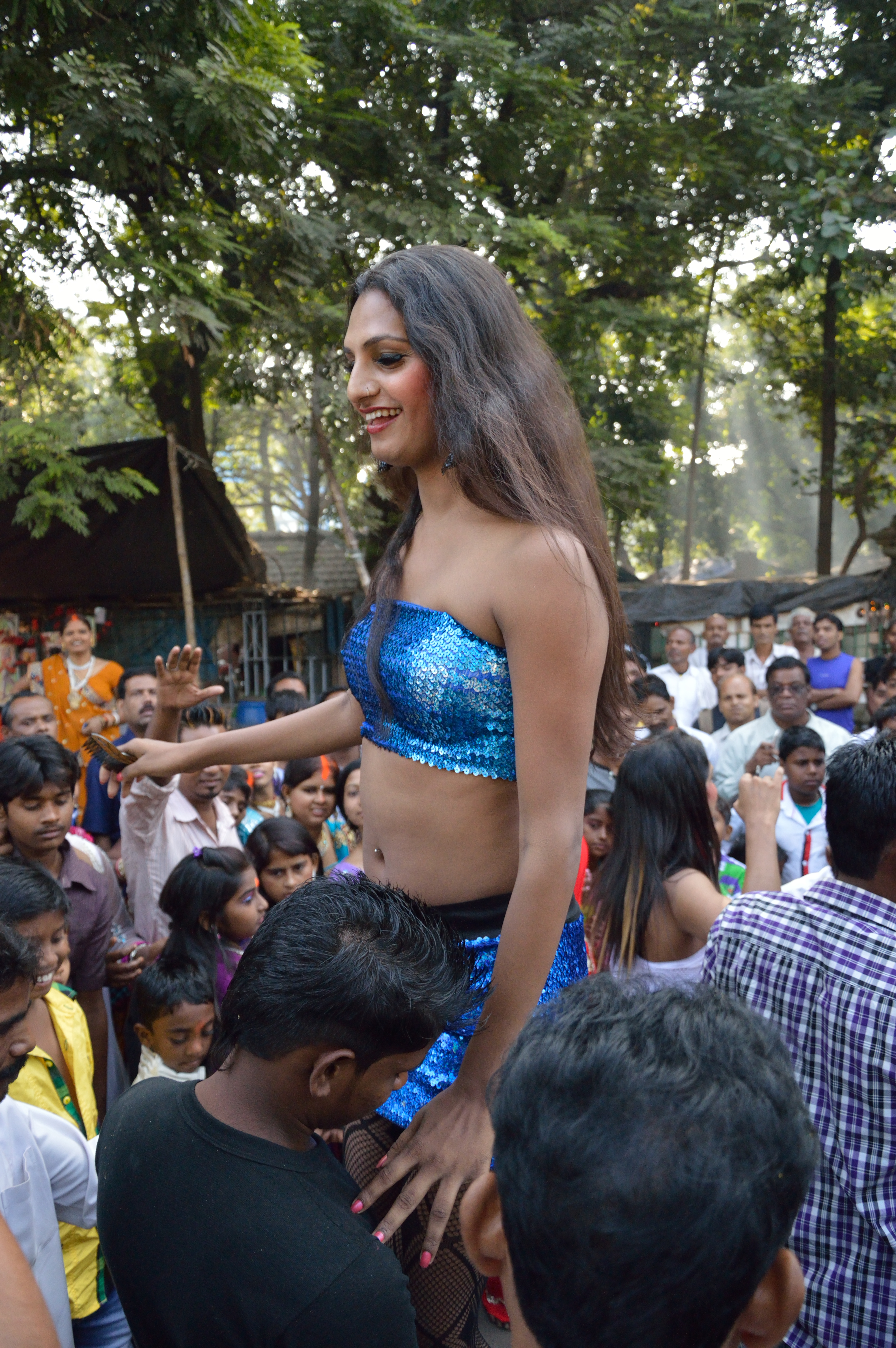 Photographed during the Chhath puja ceremony (festival dedicated to the Sun god) at the bank of river Hooghly, Kolkata. This Hindu festival regarded mainly by the people of Indian states Bihar, Uttar Pradesh, Jharkhand etc.